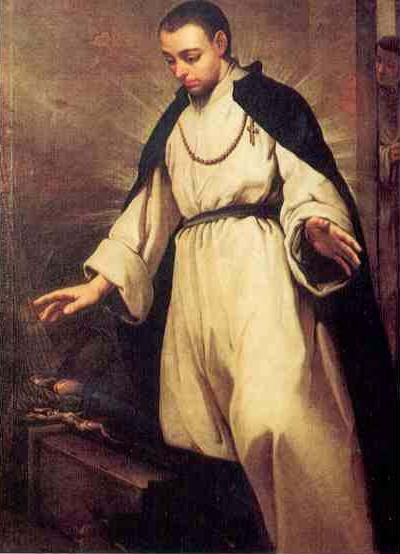 Blessed Albert of Bergamo, with the Dominic tertiaries habit.